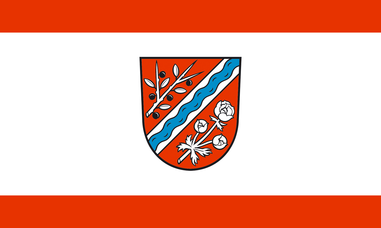 Flag of the municipality of Turnow-Preilack countryGermany used byTurnow-Preilack current since9 May 2012 created byUwe Reipert format5 : 3 shaperectangular FIAV↑ also used asMunicipal flag colours red white other characteristicsflag has 3 horizontal stripes flag includes the coat of arms